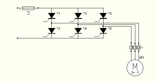 Gate Turn Off wiring.